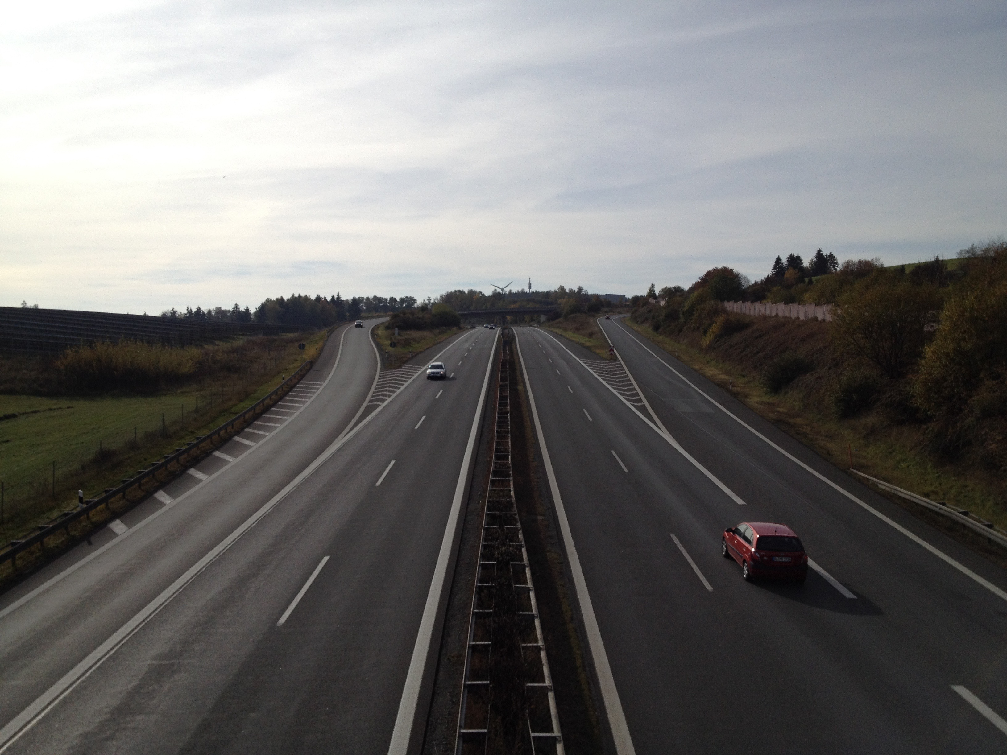 In the picture there is a intersection Bayerisches Vogtland in Germany.